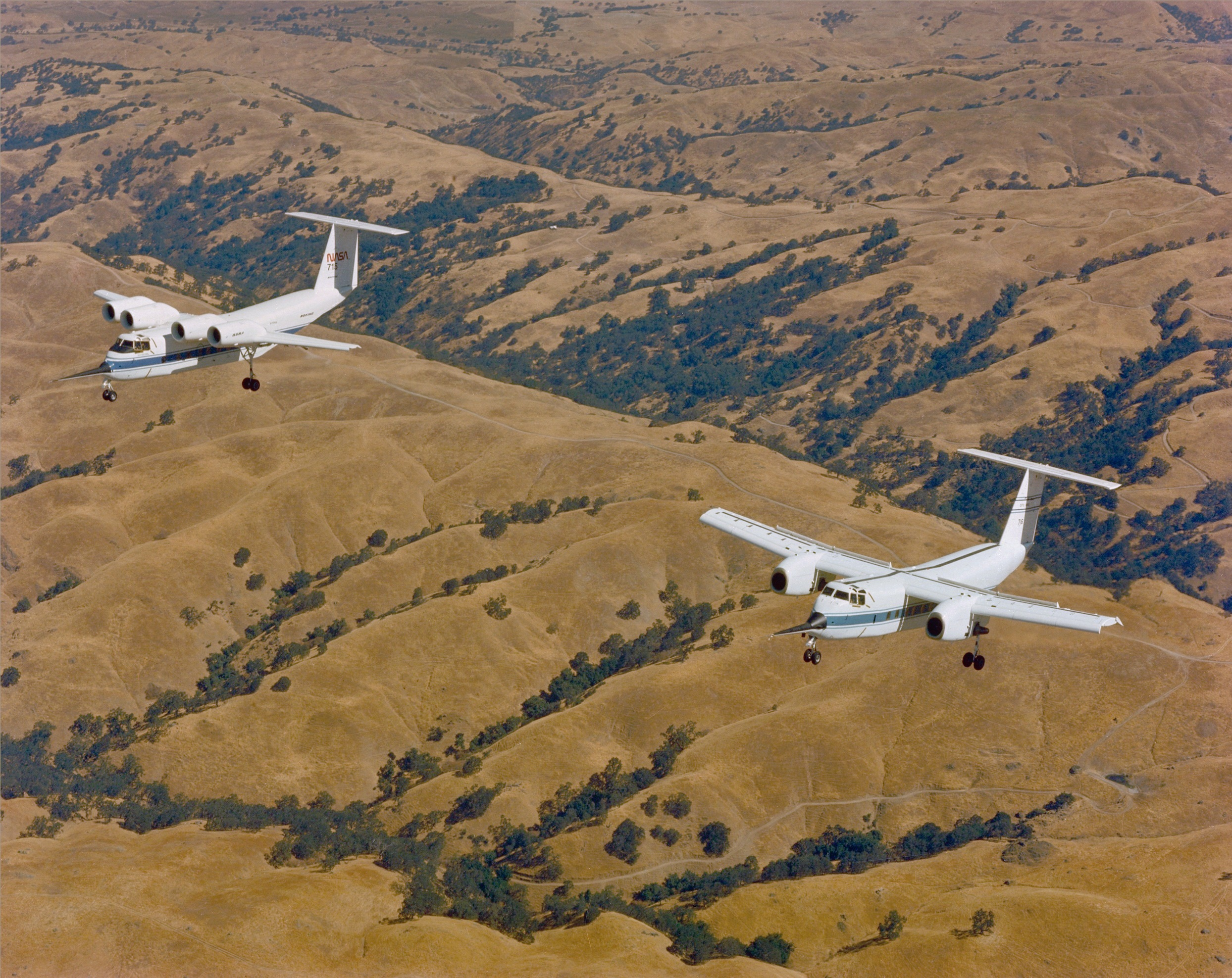 Air to air of the QSRA (NASA 715) and C-8A AWJSRA (NASA 716) on maiden flight to Ames from Seattle, Washington after conversion.